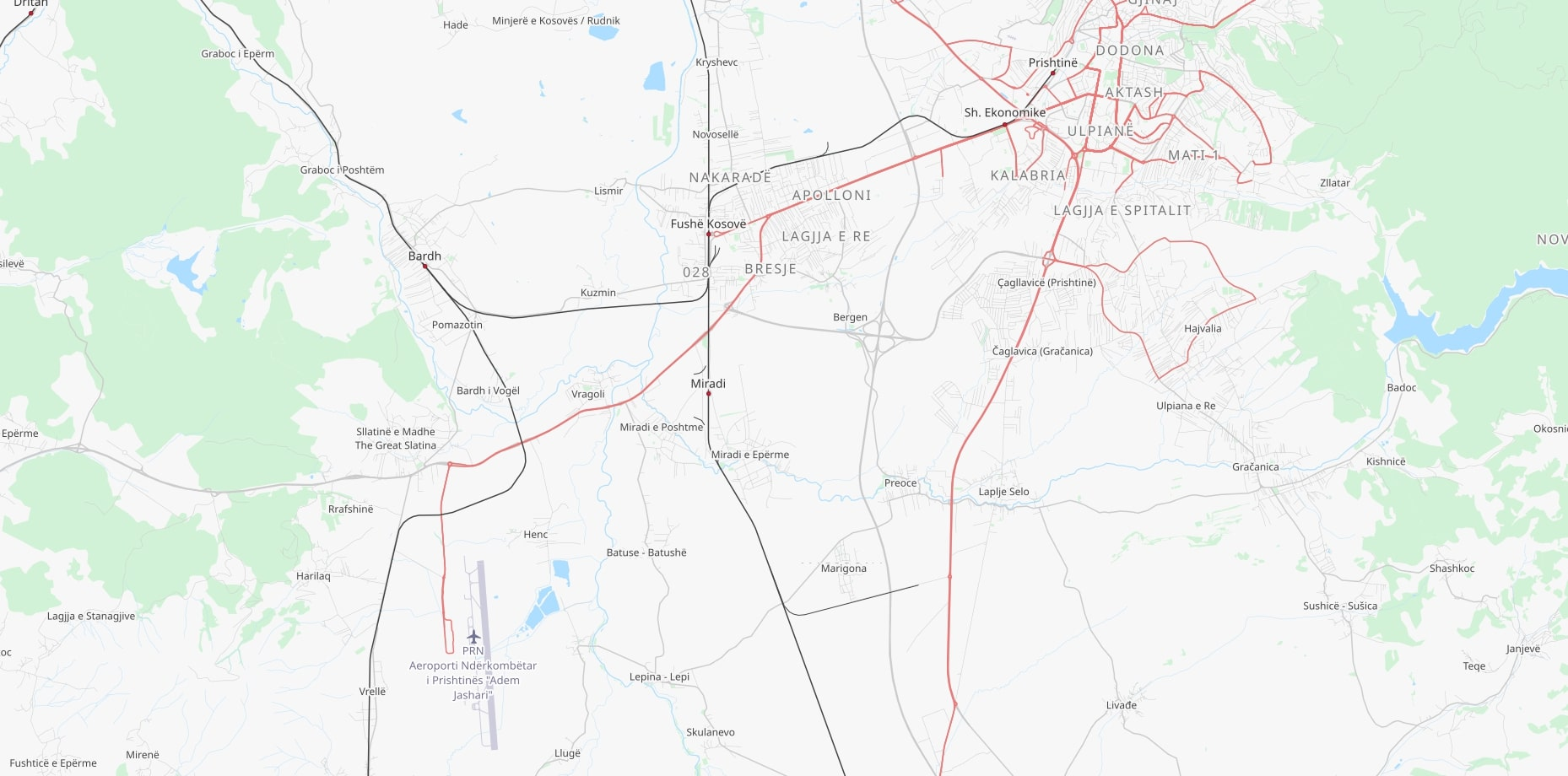 Pristina International Airport